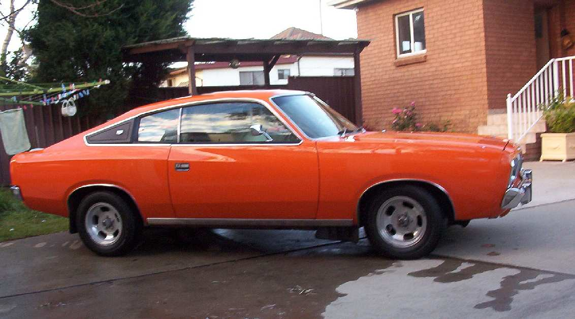 1976–1978 Chrysler CL Charger coupe, photographed in Australia.